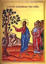 Cursing the fig tree. Byzantine icon of Jesus as in Mark 11:12–14